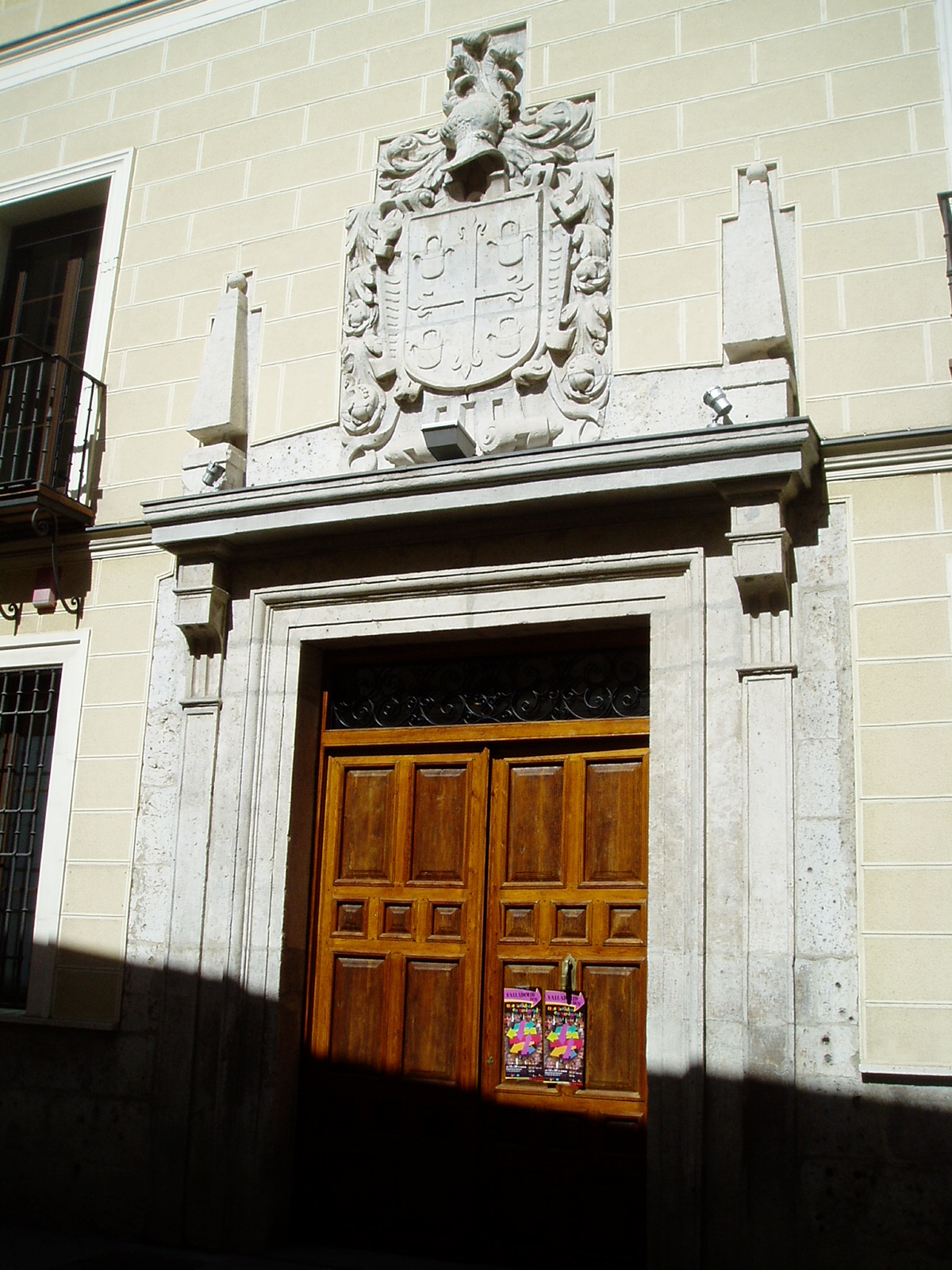 Front of the palace of the Villagómez family in Fray Luis de León street.